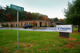 A view of the company's facilities in Enfield, Connecticut, United States of America. Courtesy